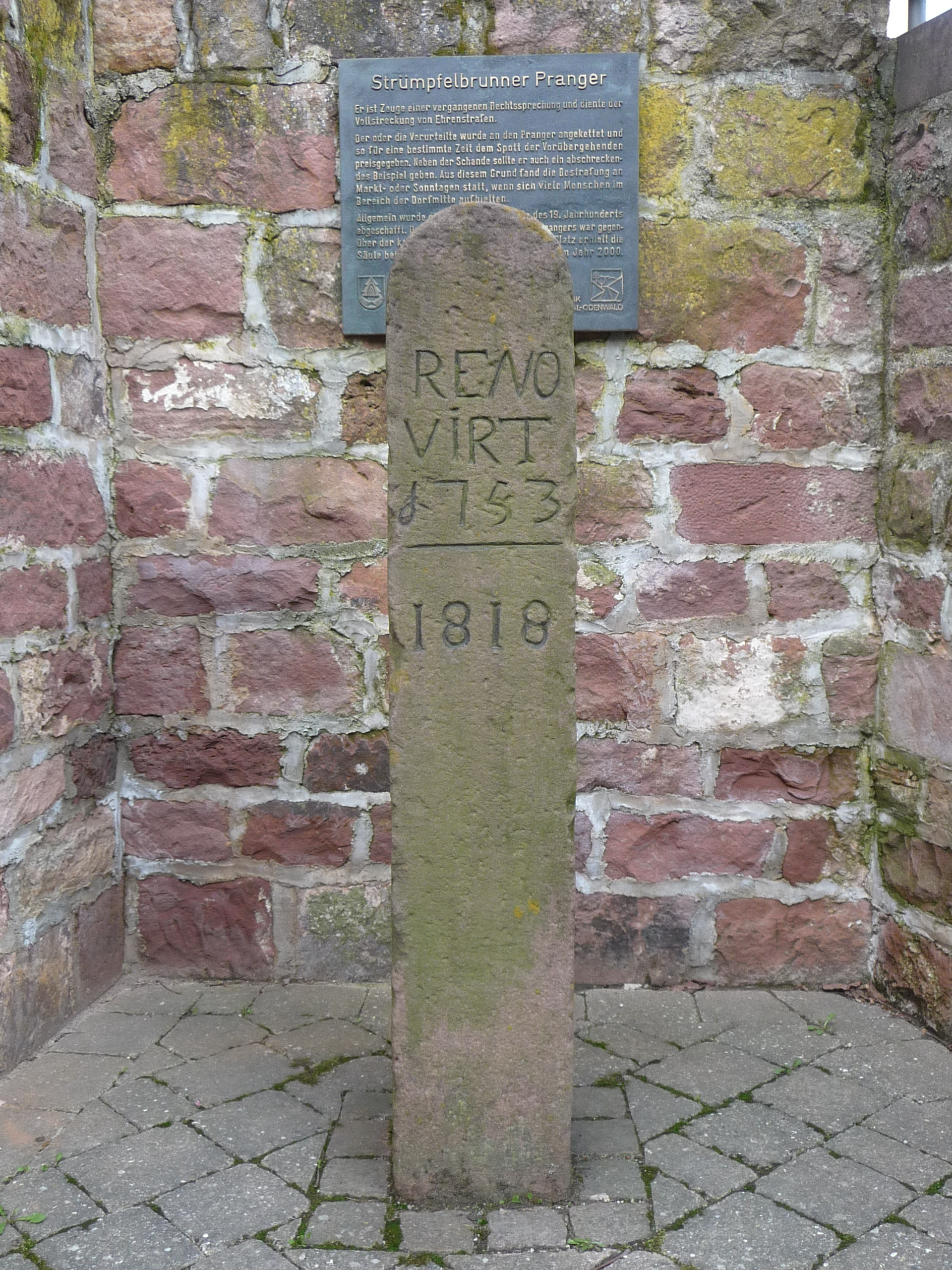 Strümpfelbrunn